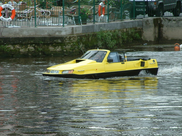 Totnes, A Car on the River Dart. I'm not sure if James Bond was at the wheel, I couldn't quite see the driver's face!